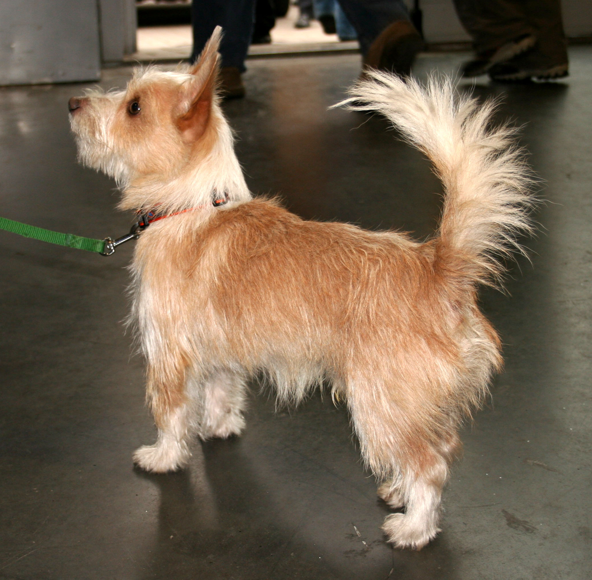 Portuguese Podengo miniature (Wire) during World Dog Show in Poznań.